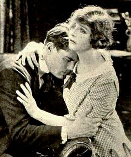 Still from the American film The Virtuous Thief (1919) with Lloyd Hughes and Enid Bennett, on page 1643 of the August 21, 1919 Motion Picture News.